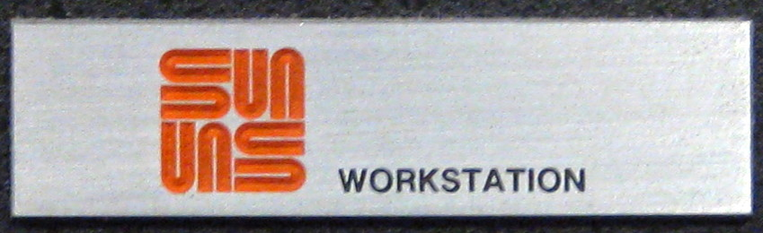 Original logo used by Sun Microsystems ca. 1982